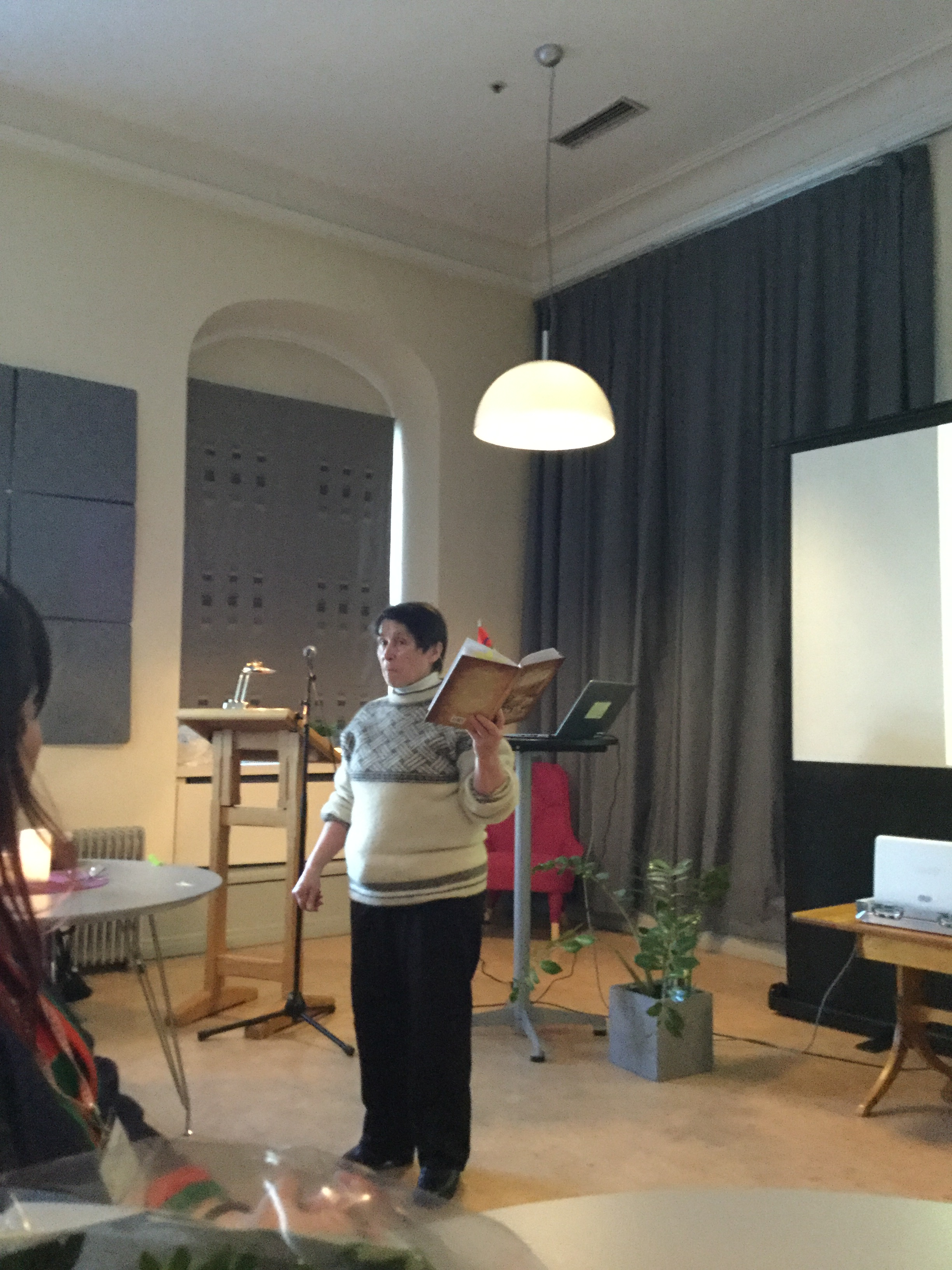 Swedish-norwegian Sami author Lajla Mattsson Magga (b 1942) reading her own work at a presentation in Trondheim Norway during Tråante 2017